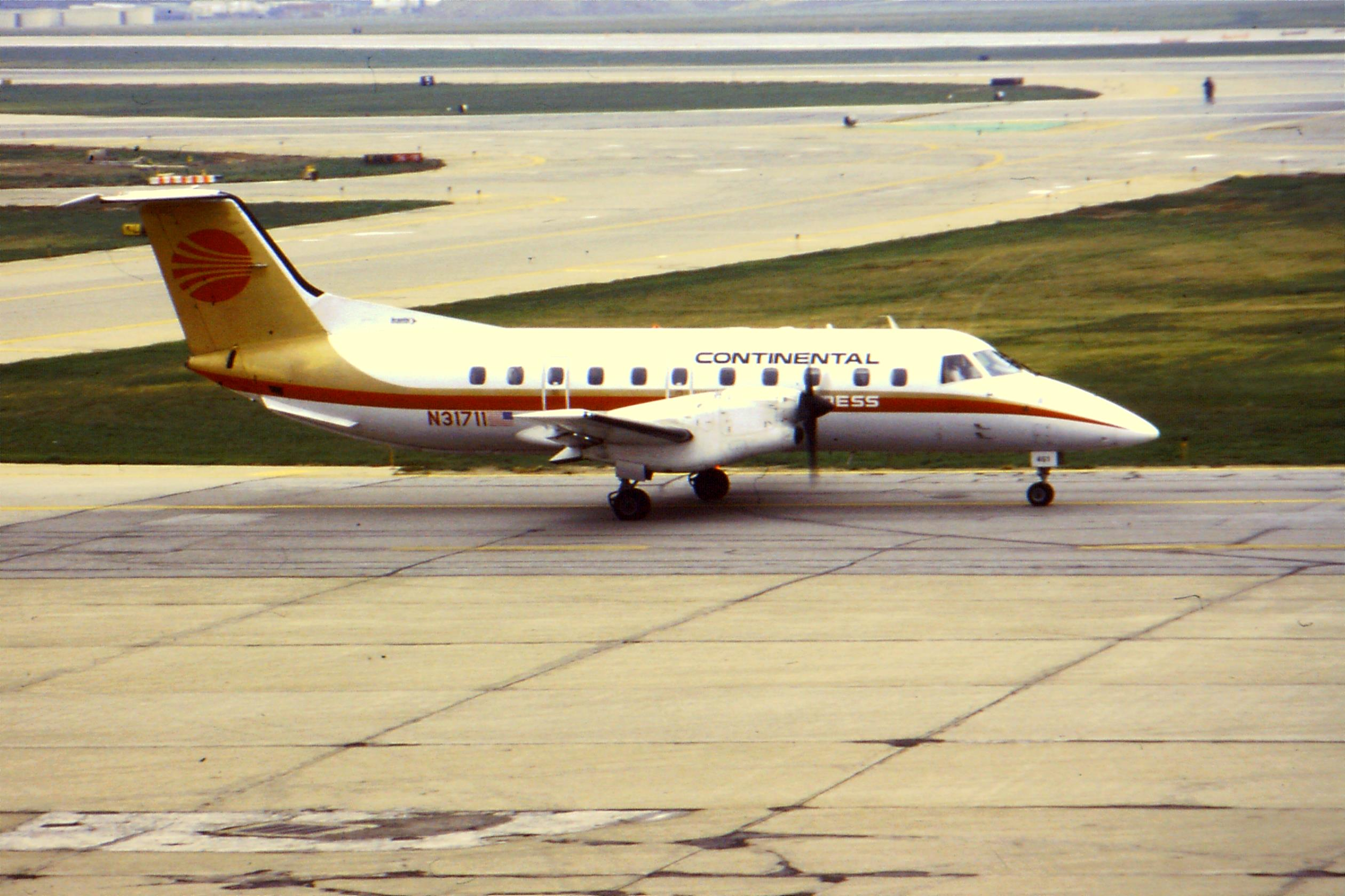 I think this was taken at CLE in the early 1990's.